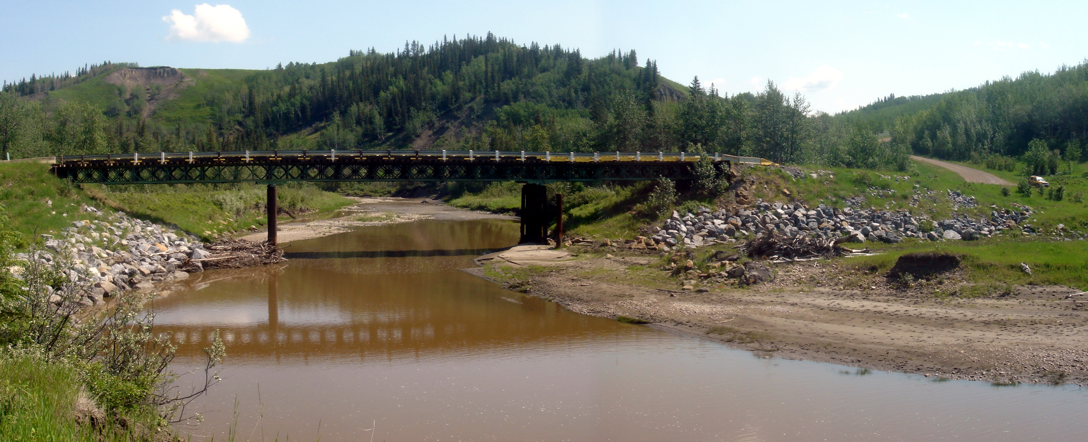 Bridge over Pouce Coupe River along Landry Road in British Columbia